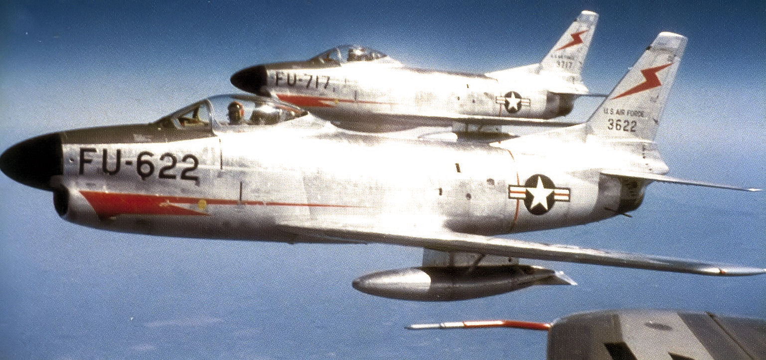 432d Fighter-Interceptor Squadron North American F-86D-40-NA Sabres 520th Air Defense Group, Truax Field, Wisconsin, Nov 1953 Identified Aircraft: 52-3622, 52-3717